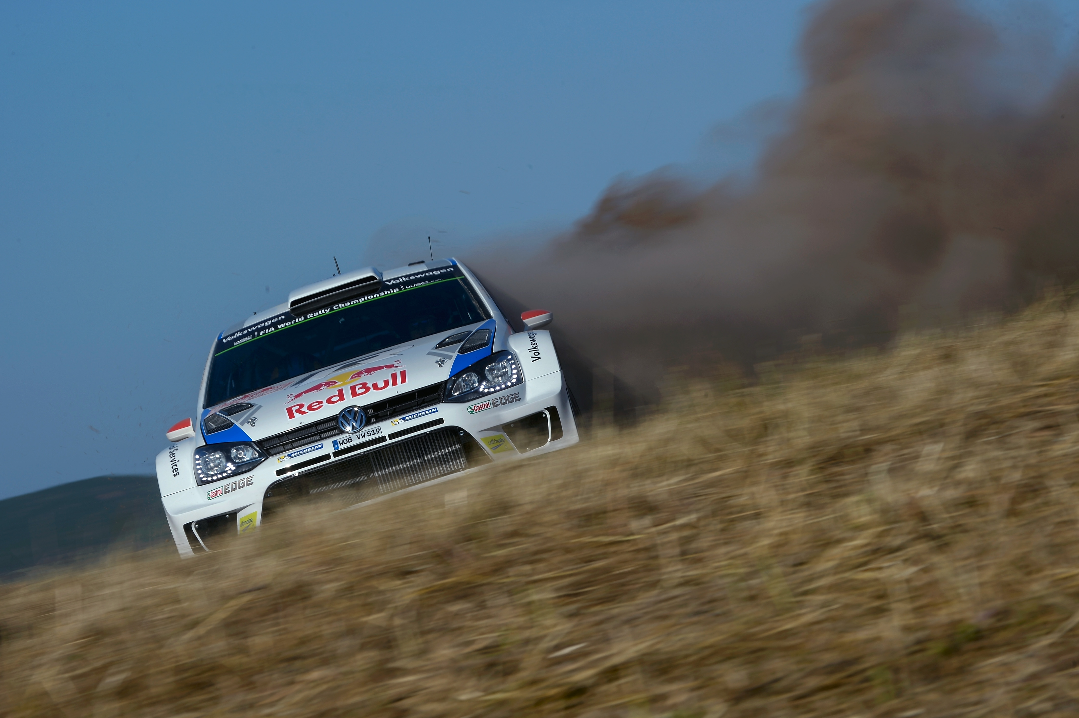 Jari-Matti Latvala and co-driver Miikka Anttila in their VW Polo R WRC at the 2014 Rally d'Italia Sardegna.